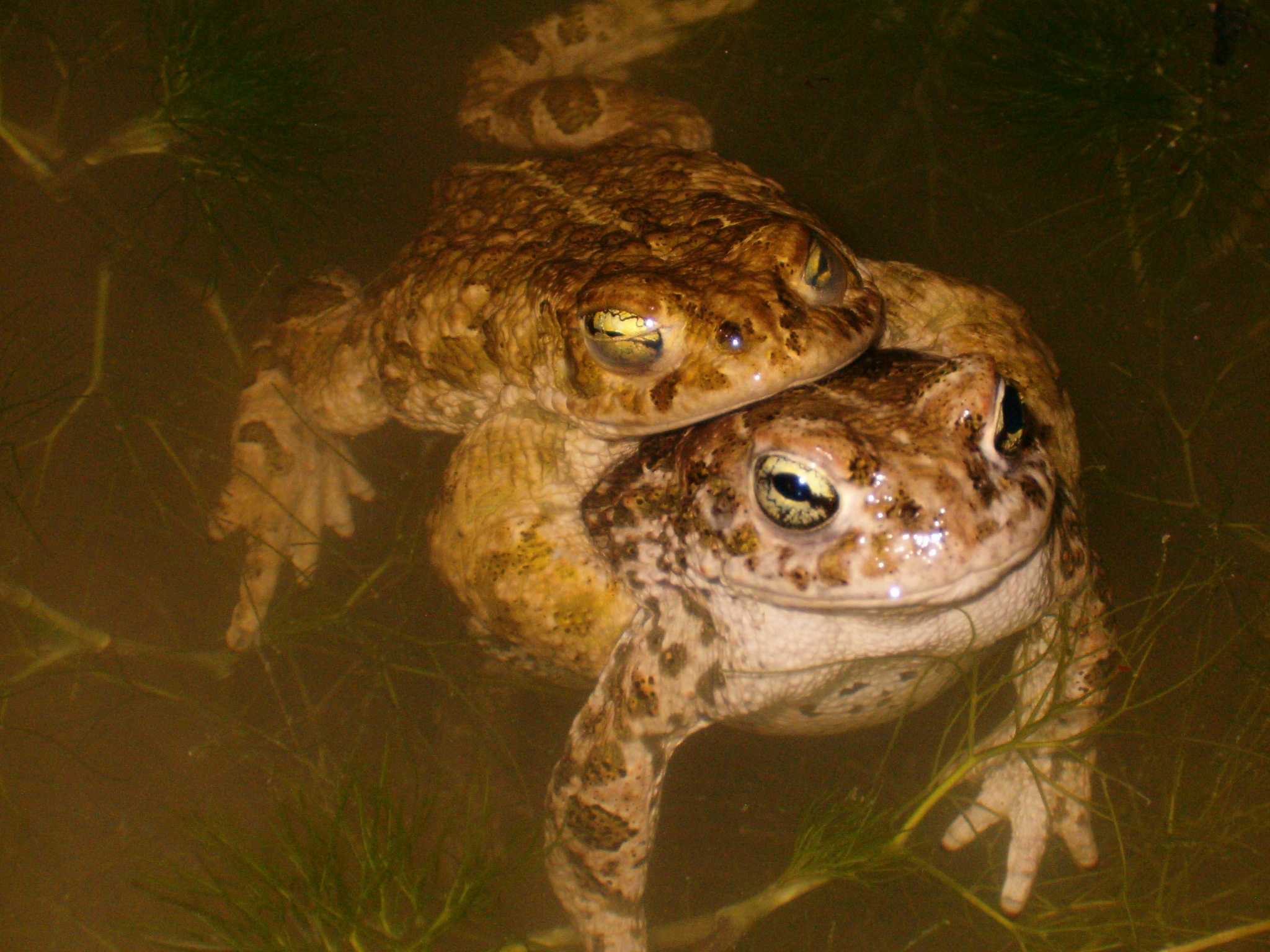 Bufo calamite mating 24 March 2006 - 23h30 Notre-Dame-de-Londres - Hérault - France By David Delon